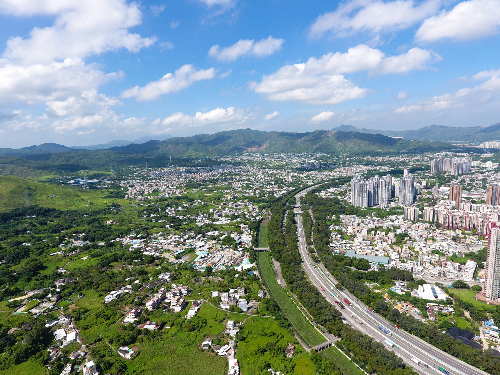 Yuen Long South